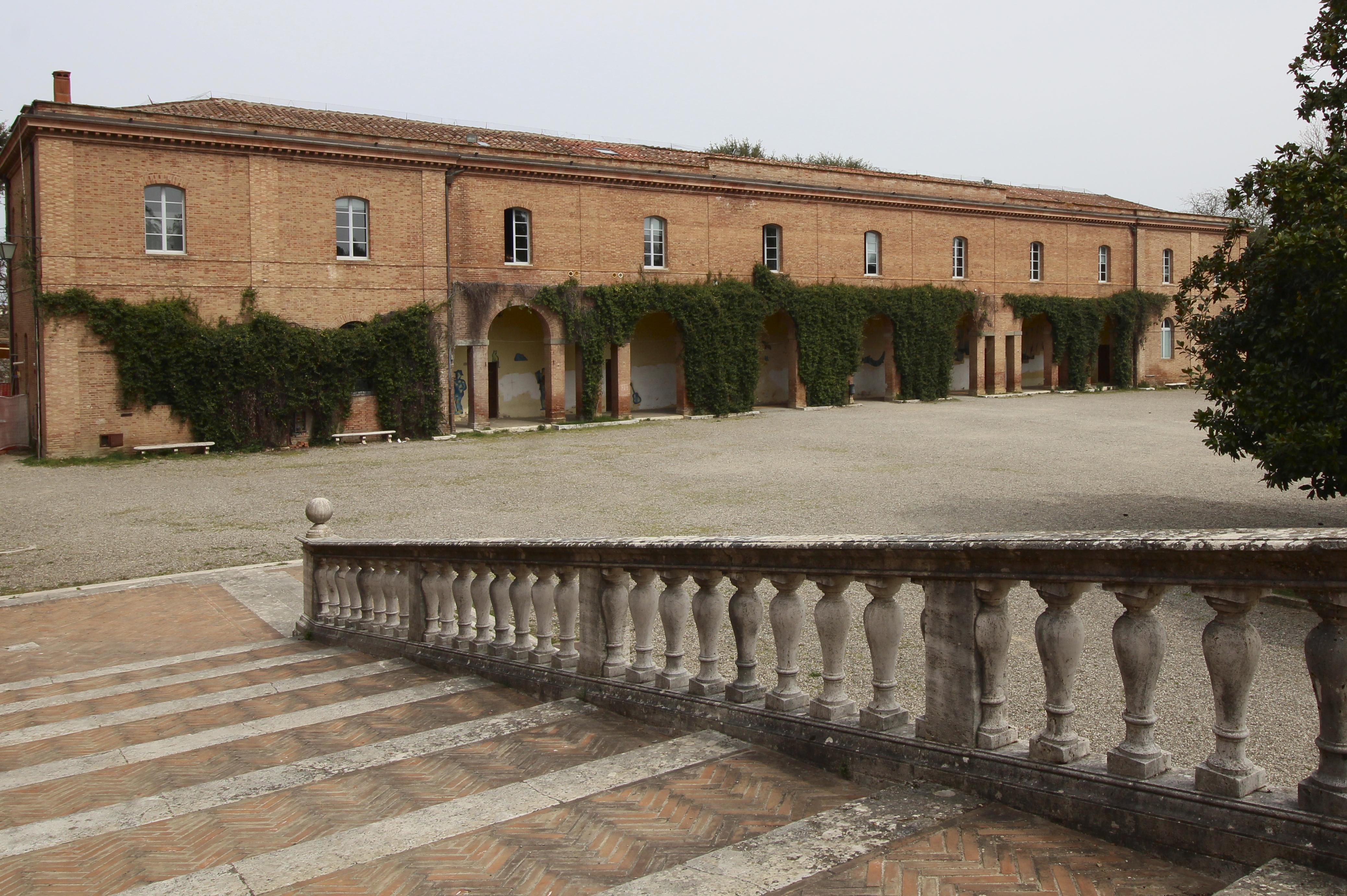 the former barracks Caserma di Santa Barbara, Fortezza Medicea, Siena, Province of Siena, Tuscany, Italy